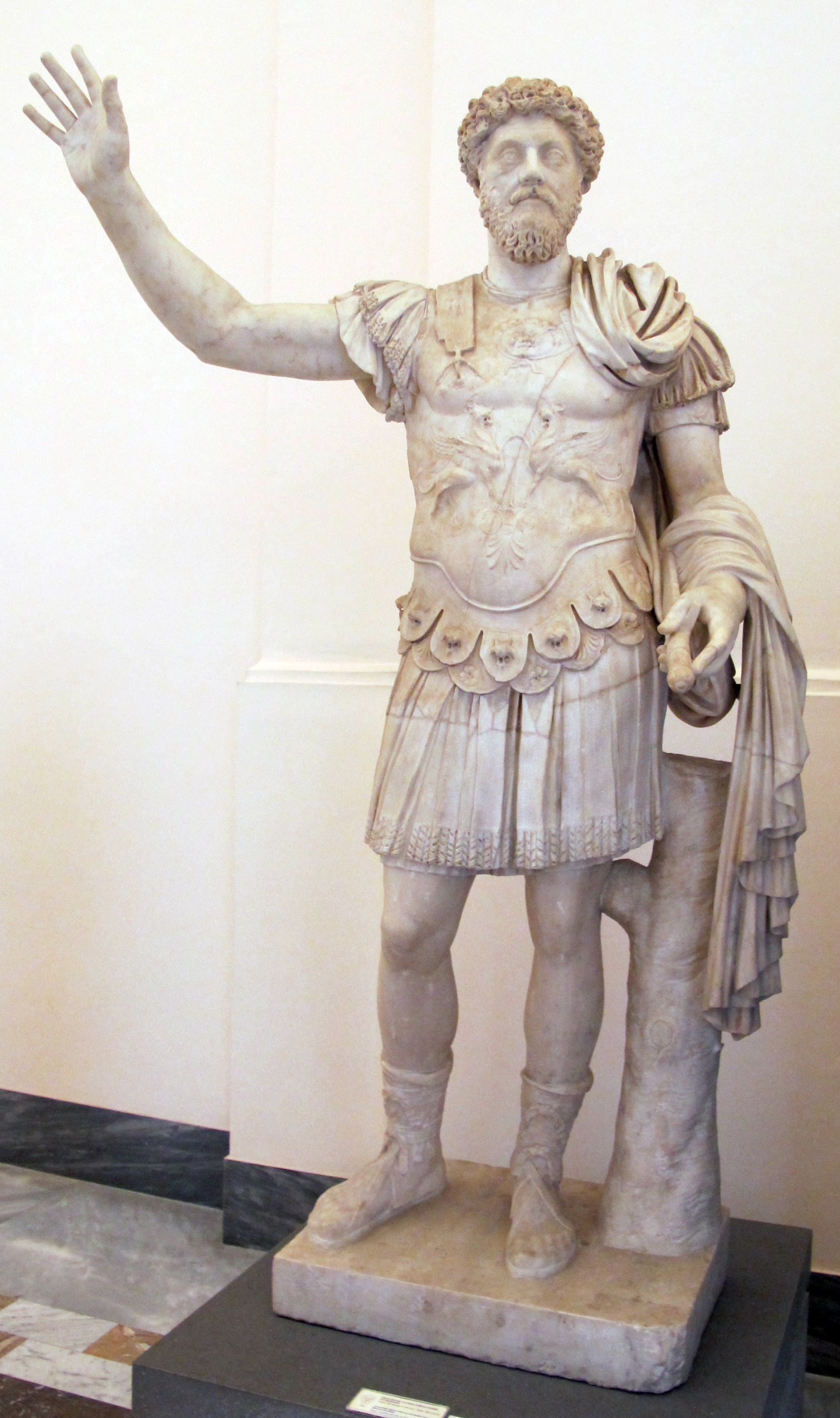 Ancient Roman statues from the Farnese Collection, now in Naples